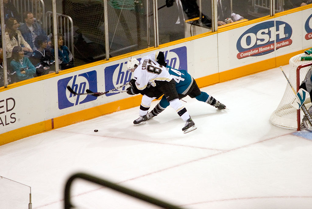 Sidney Crosby of the Pittsburgh Penguins and Marc-Edouard Vlasic of the San Jose Sharks fight for the puck.